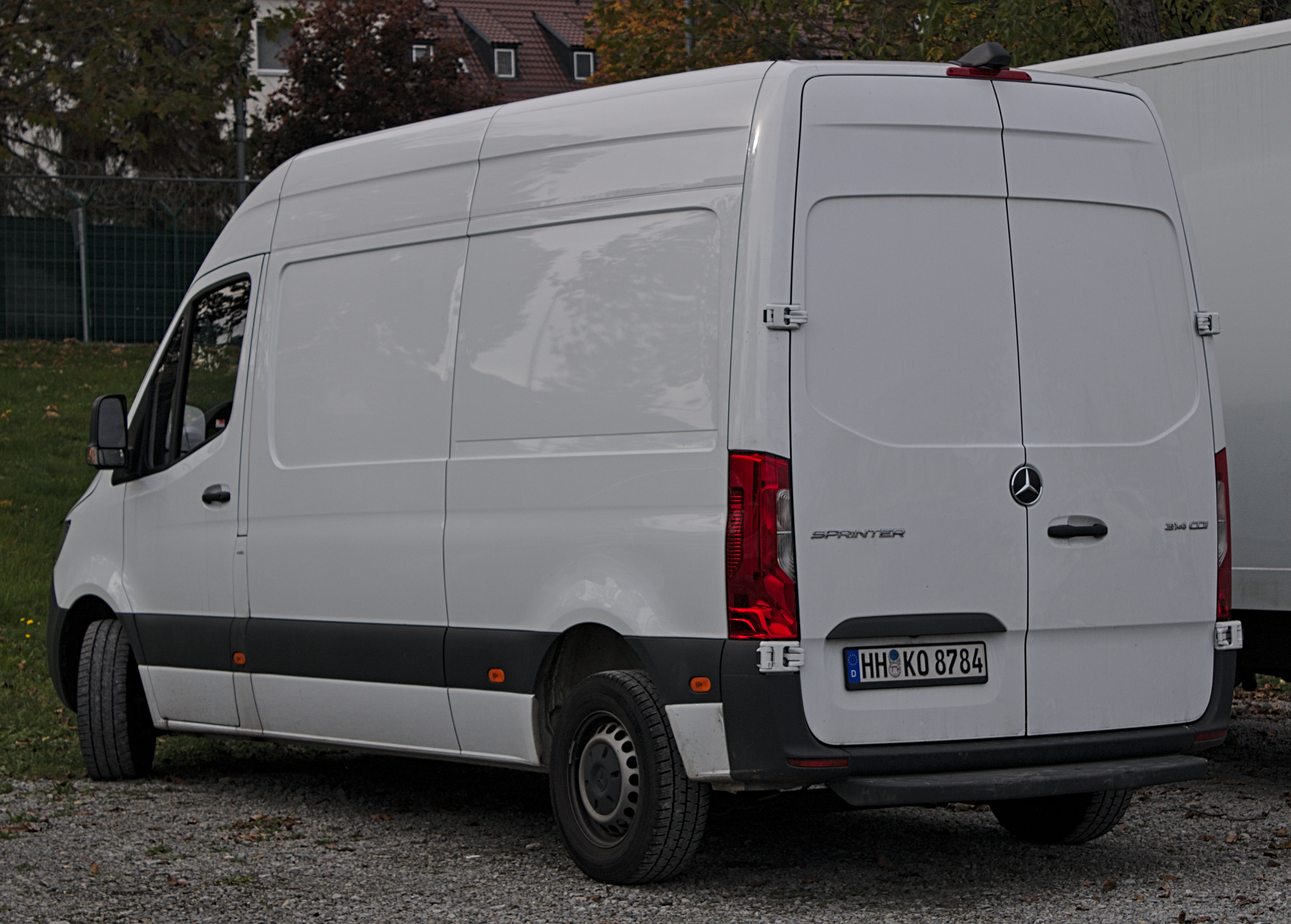 Mercedes-Benz_Sprinter_(2018) in Stuttgart-Vaihingen